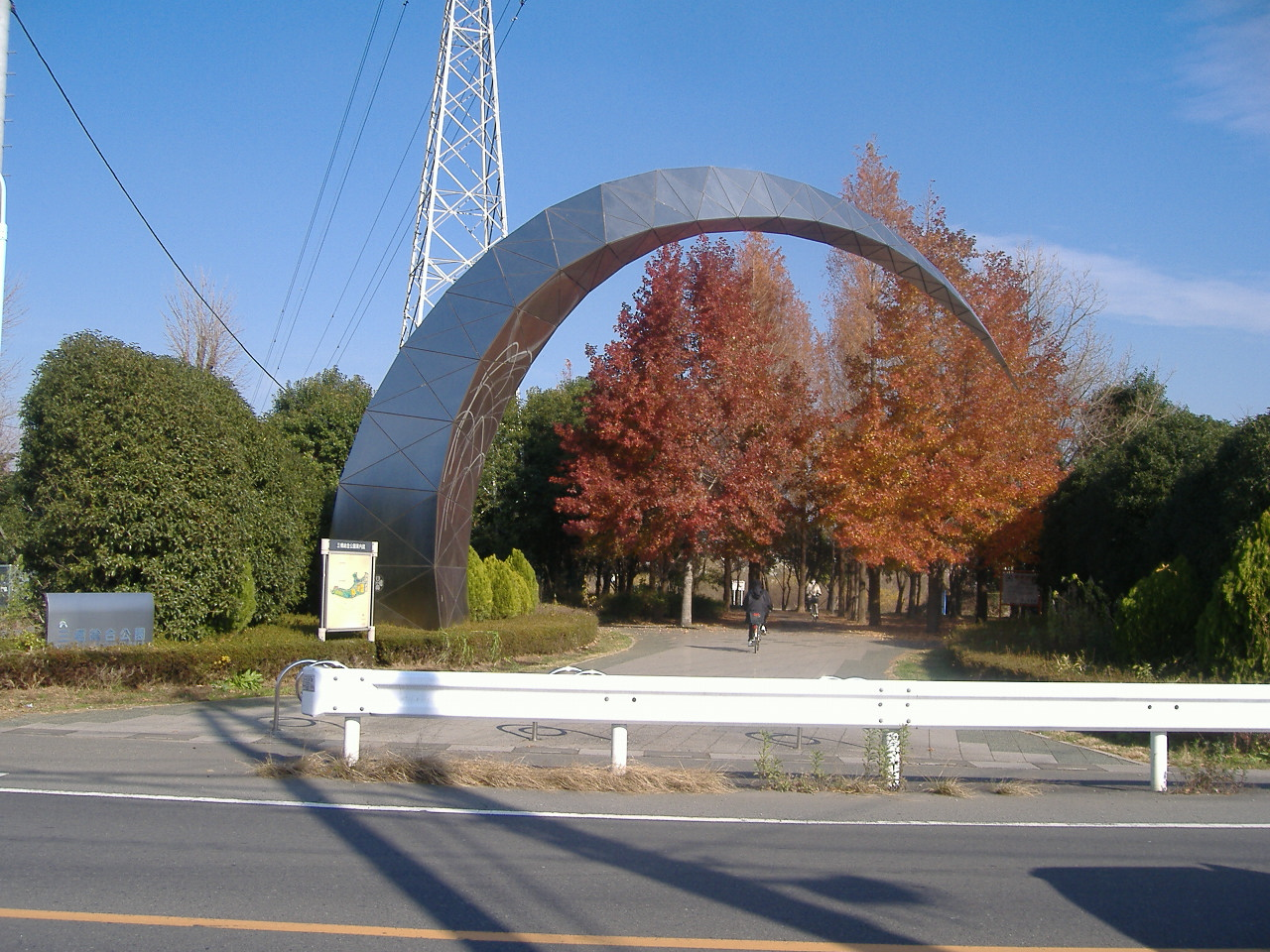 Mihashi Recreational Palk (Saitama, Japan)